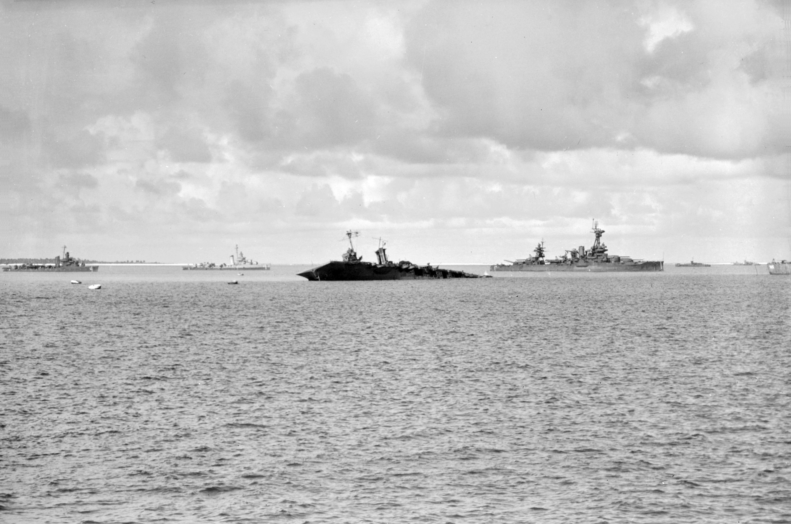 The U.S. Navy aircraft carrier USS Saratoga (CV-3) sinking in Bikini Atoll lagoon after bomb damage sustained during the "Baker" atomic test of Operation Crossroads, at 15:40h, 25 July 1946. The battleship USS New York (BB-34) is visible on the right, two Sims-class destroyers on the left.